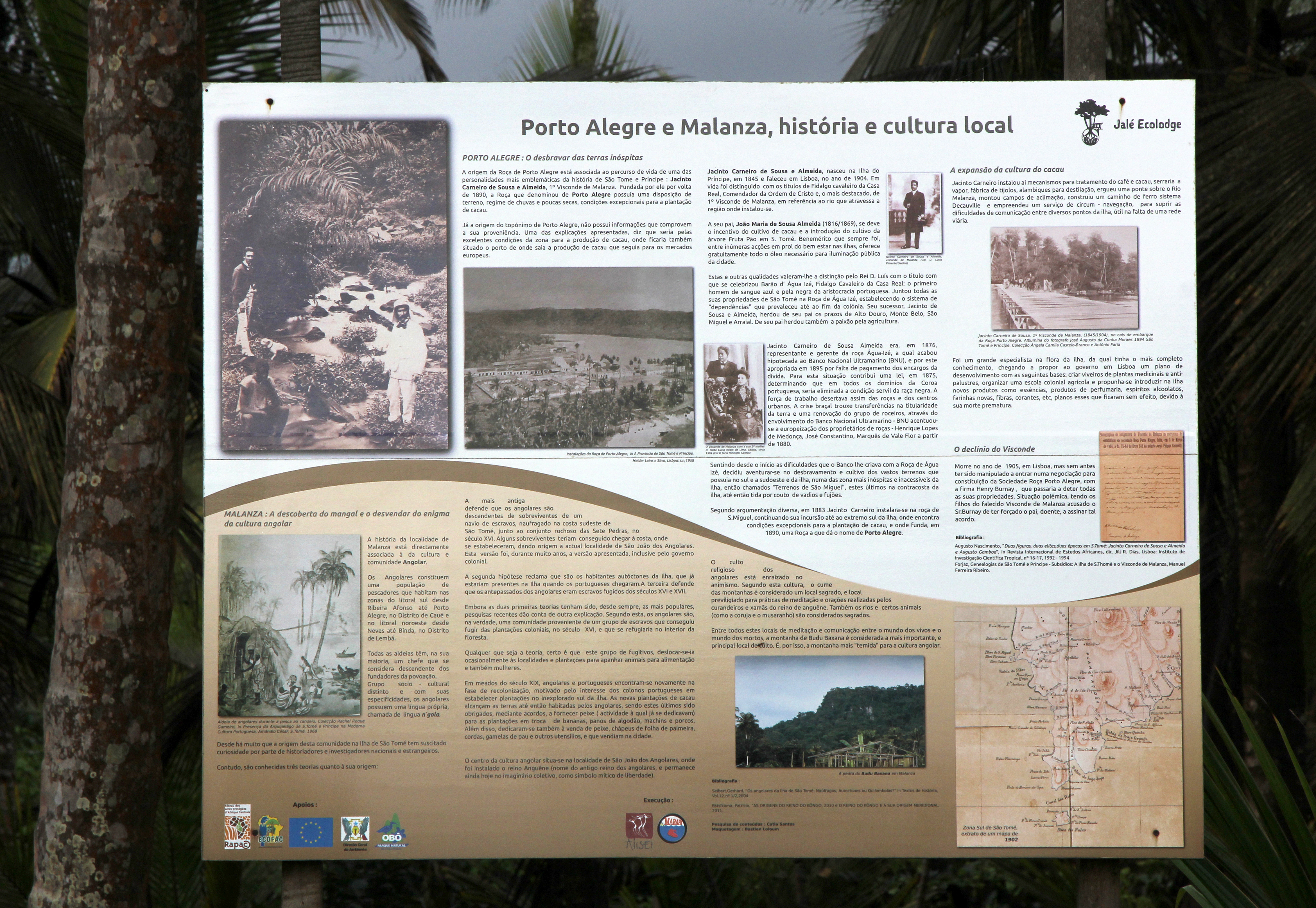 Information wall on the history of Roca Porto Alegre, Sao Tome and Principe